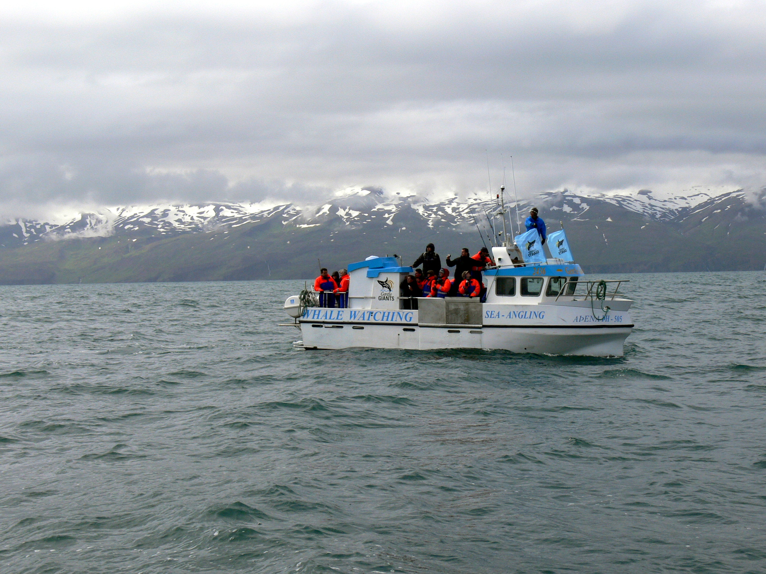 Húsavík, Iceland. Whale watching boat on the fjord.